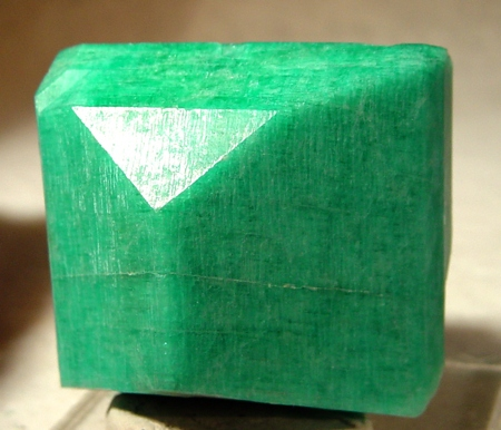 Microcline (Var.: Amazonite) Locality: Take 5 claim (Take Five claim), Crystal Peak area, Teller County, Colorado, USA (Locality at ) A superb, textbook amazonite crystal with the absolute deepest color and fine luster. Natural contacts (with other crystals) on the back side do not show from the display face.. COLOR COLOR COLOR….and did I say COLOR? 4.4 x 4 x 3.5 cm